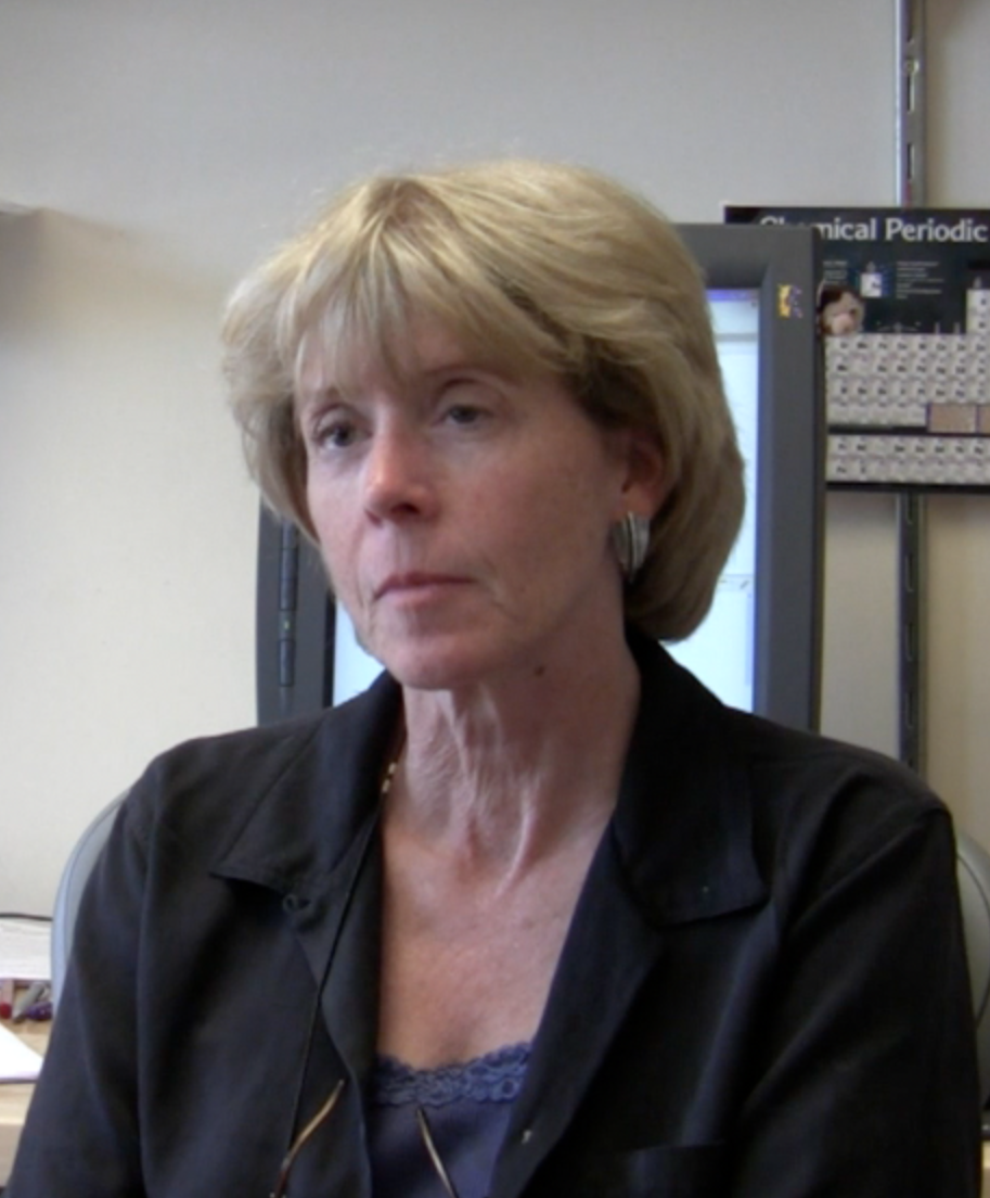 Image of chemist Cynthia Burrows, from an oral history interview with the Chemical Heritage Foundation, Philadelphia, PA, USA, in which she discusses her career. She was interviewed on July 15, 2009 and July 16, 2009.